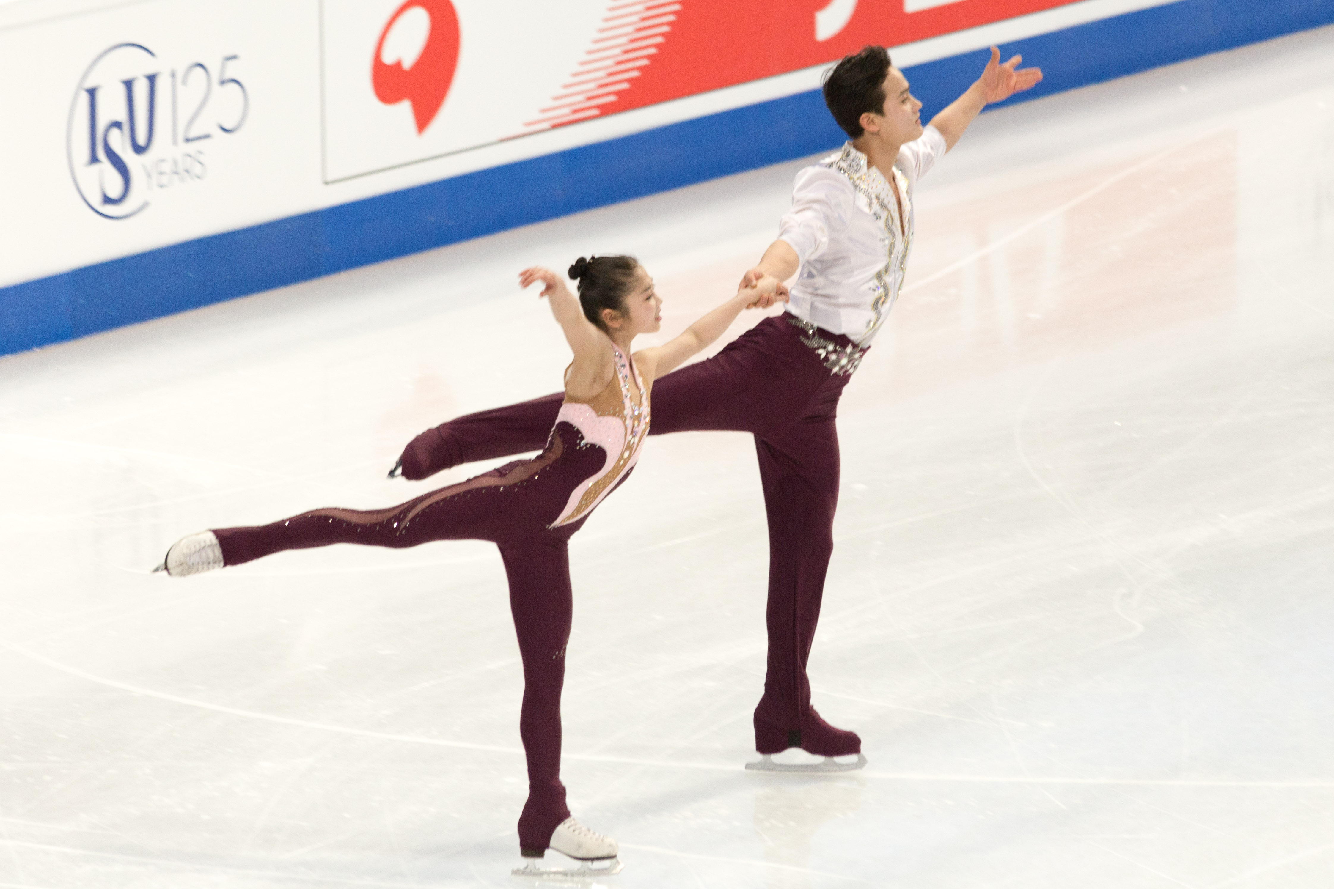 Tae Ok Ryom/Ju Sik Kim (PRK) skate onto the ice after their introduction in the free skate at the 2017 World Figure Skating Championships